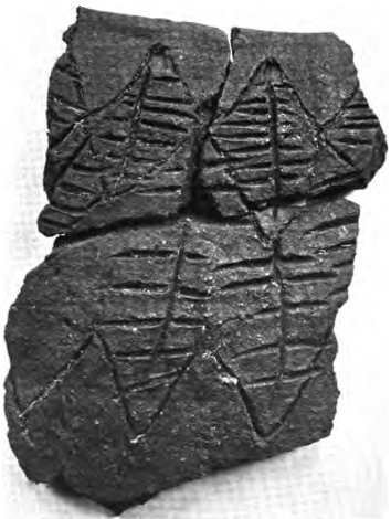 Photo of a piece of pottery, found at the site of Dùn Beic, on the isle of Coll. This image is from a scan of a photo in the book Coll and Tiree; this image was then scaled down to 15% of its original size and then cropped.